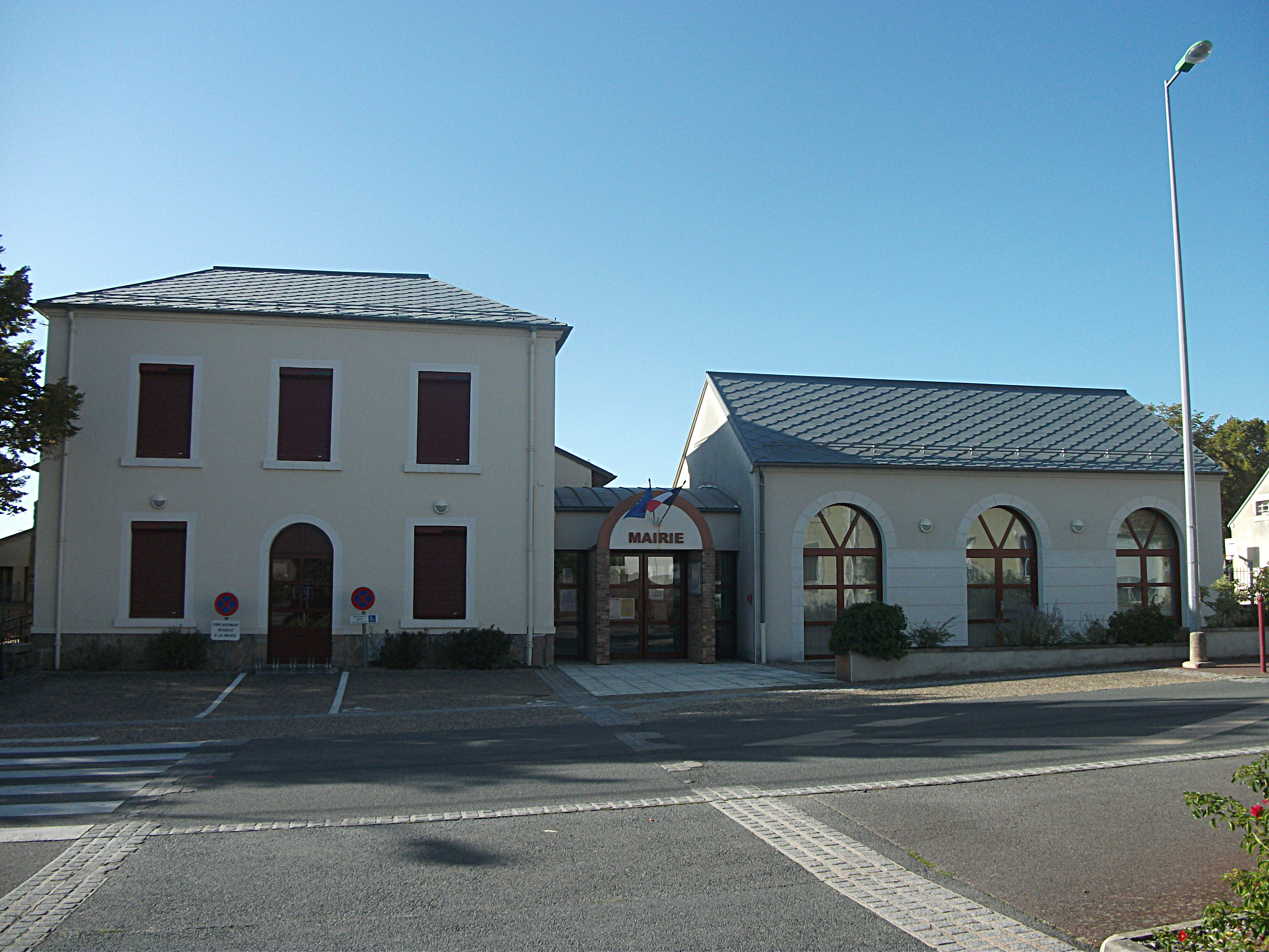 Town hall of Durdat-Larequille, Allier, Auvergne-Rhône-Alpes, France. [19023]